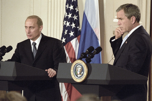 THE WHITE HOUSE, WASHINGTON, D.C. President Vladimir Putin and US President George W. Bush addressing a news conference after the highest-level consultation.